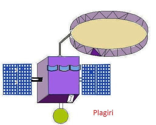 satellite Gsat-6A